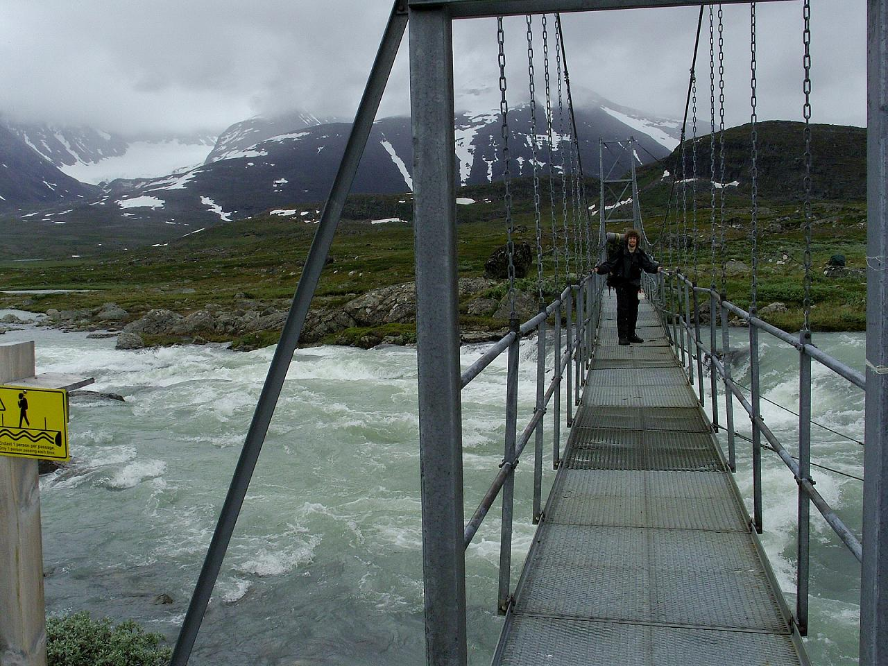 Passing bridge at Nienddo and thereby leaving Sarek. (Photo by Jan)